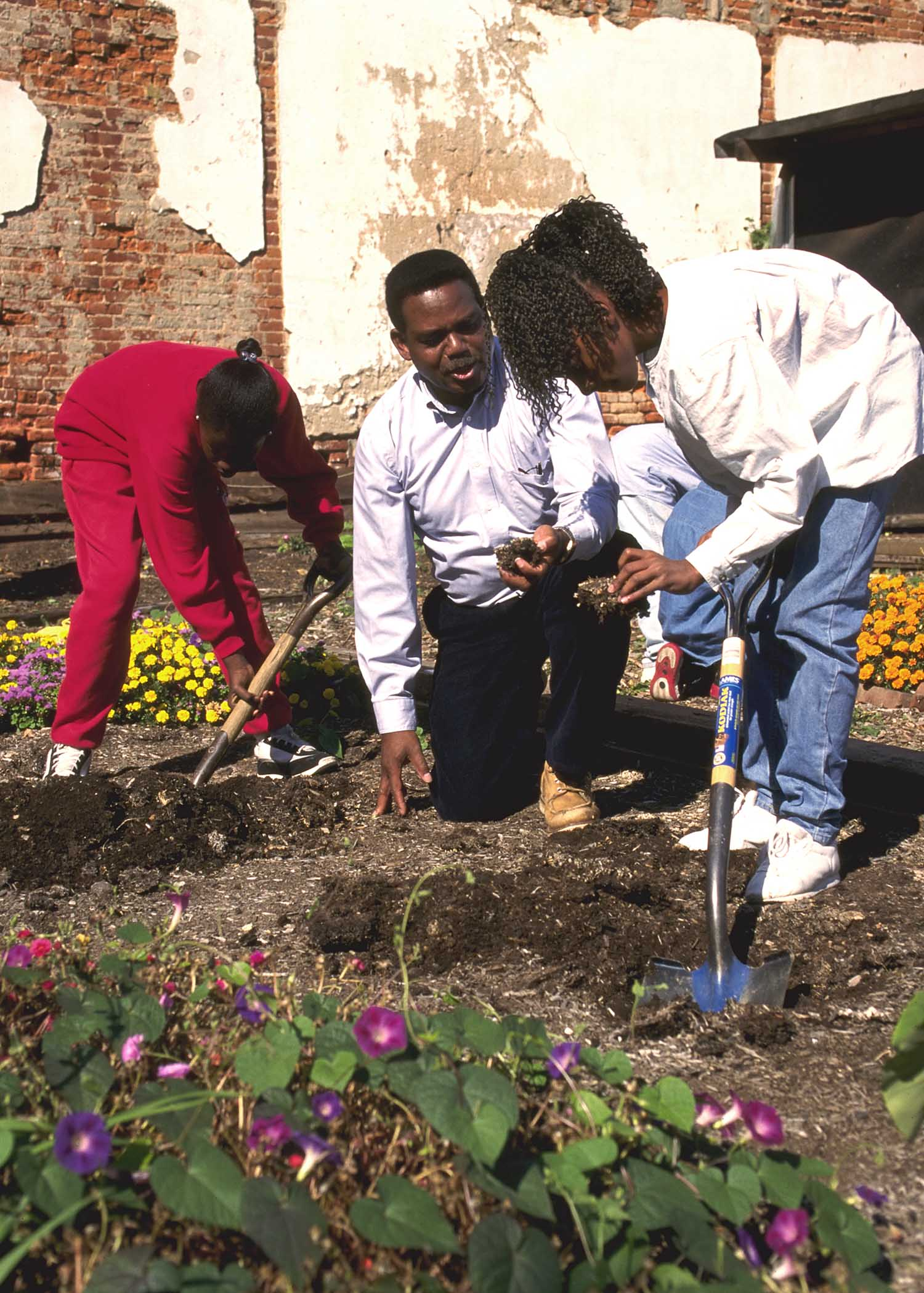 Elbert Wells, NRCS Project Leader, Delaware Estuary Program, and students from the Hartranft Elementary School in Philadelphia, PA, discuss soil quality in a garden the students built themselves. [Slide 97CS3113]